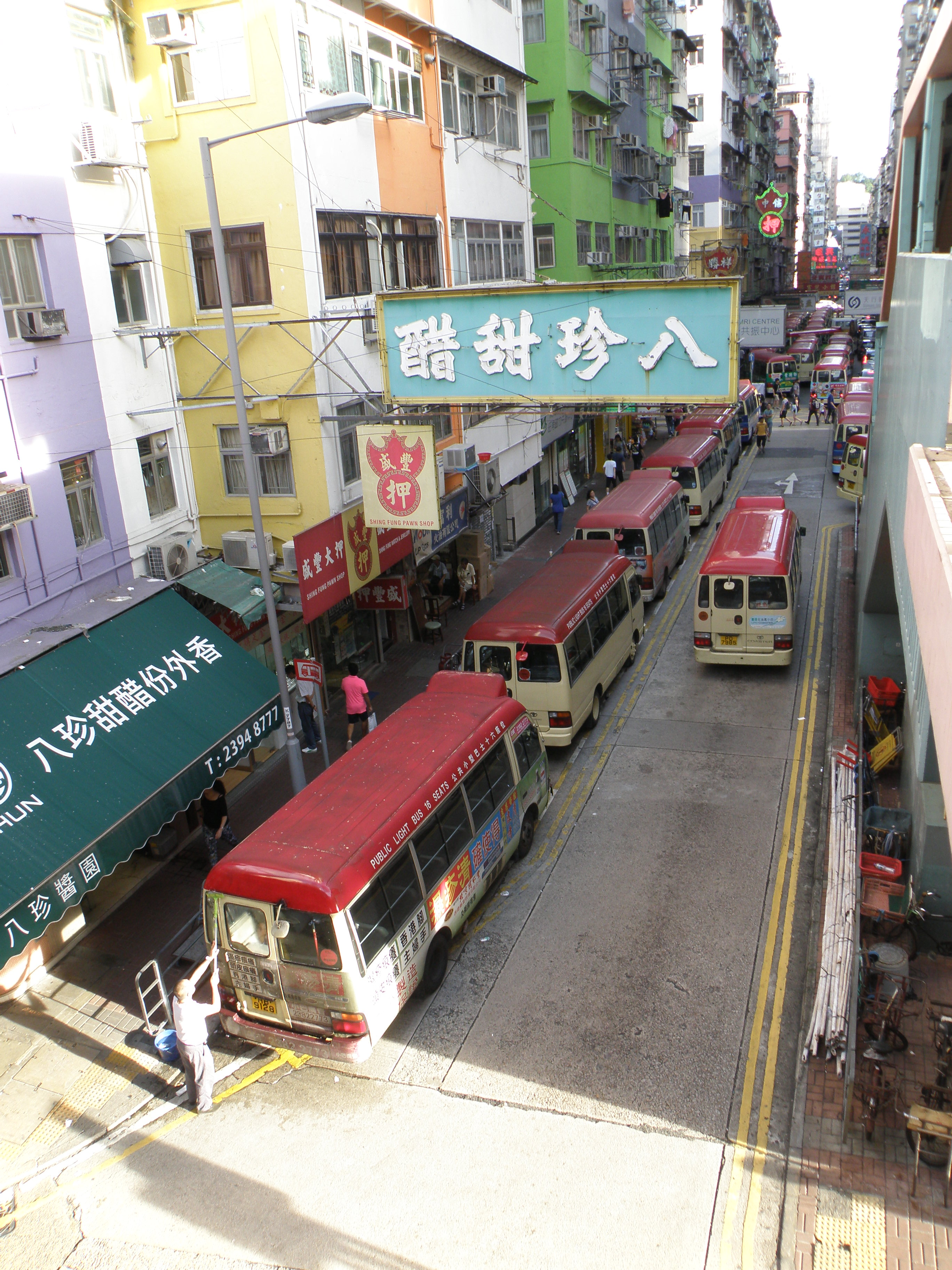 Fa Yuen Street near Mong Kok Road, Mong Kok, Hong Kong. Looking south from Mong Kok footbridge system